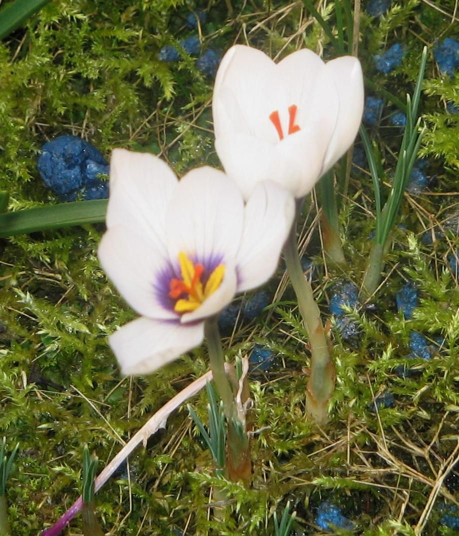 Crocus mathewii in the author's garden